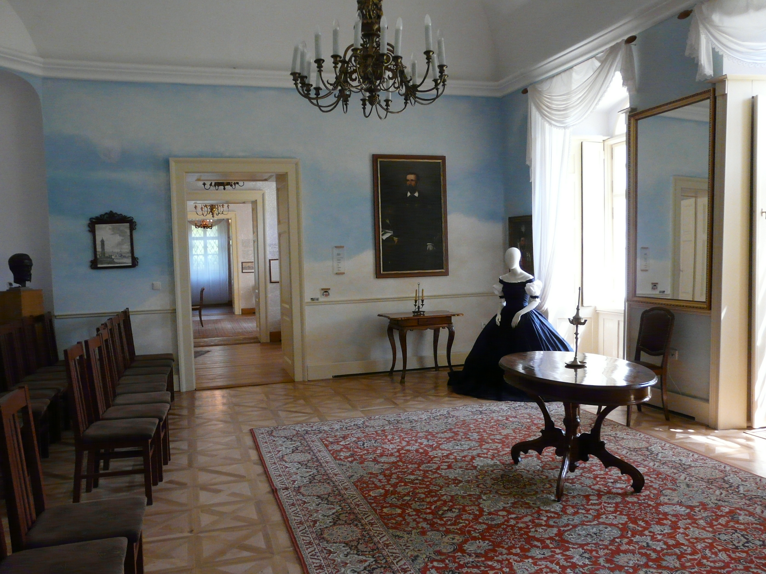 Hall of the Castle, in the permanent exhibition in Madách Mansion, Dolná Strehová